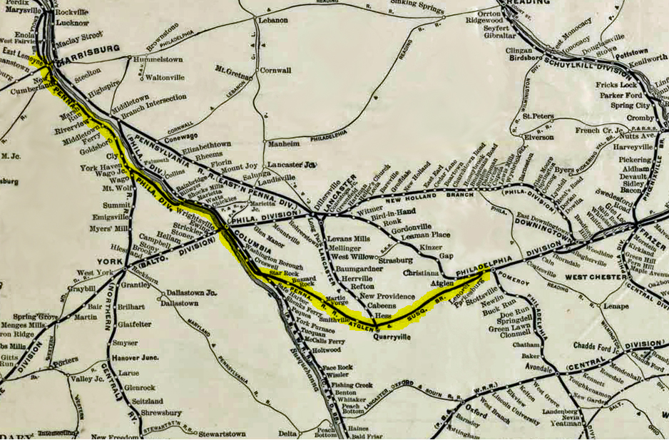 Map of Atglen and Susquehanna Branch of the Pennsylvania Railroad. Later owned by Penn Central and Conrail. The branch line operated between 1906 and 1990, when it was abandoned by Conrail. Map cropped and image sharpened.